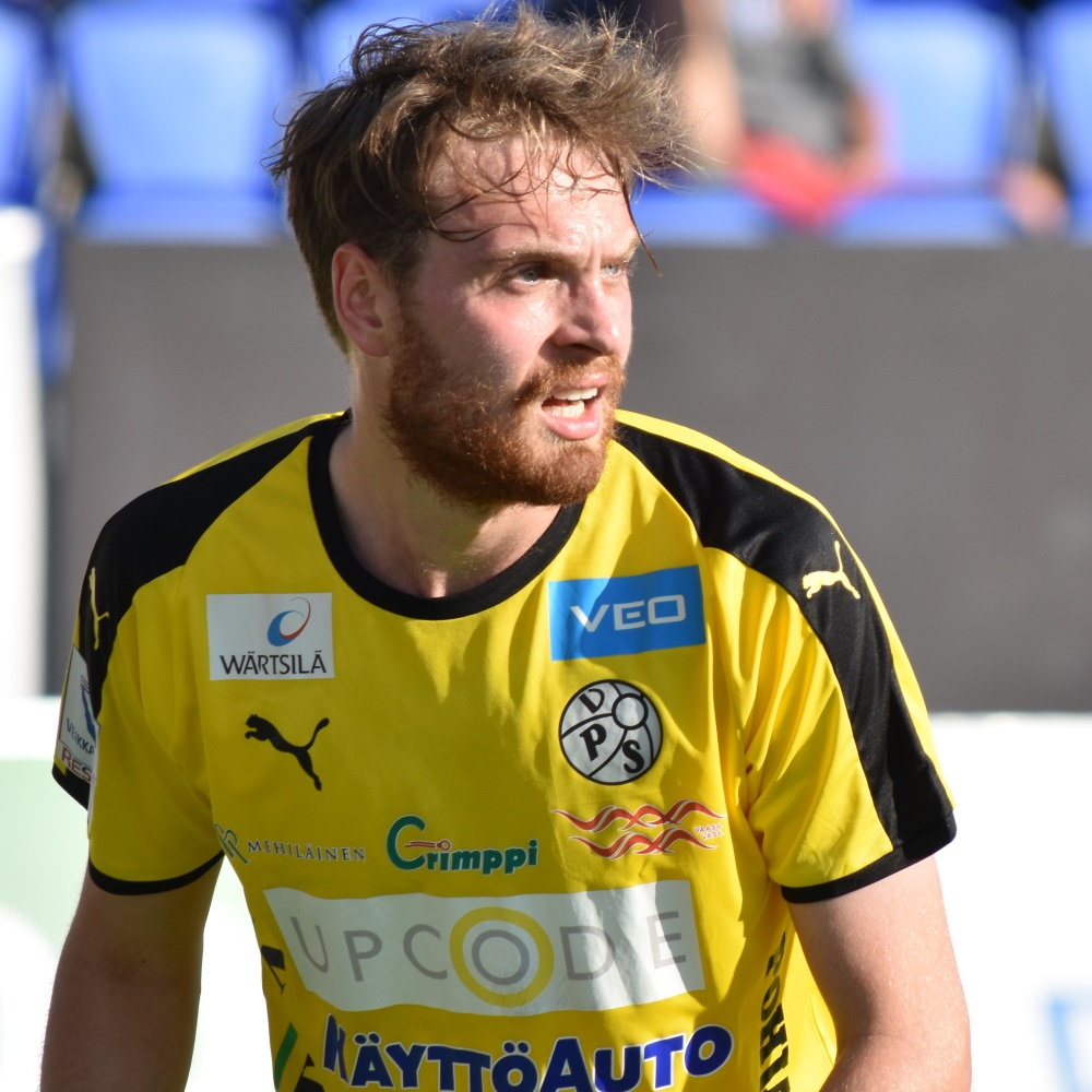 Association football player Jerry Voutilainen (VPS)